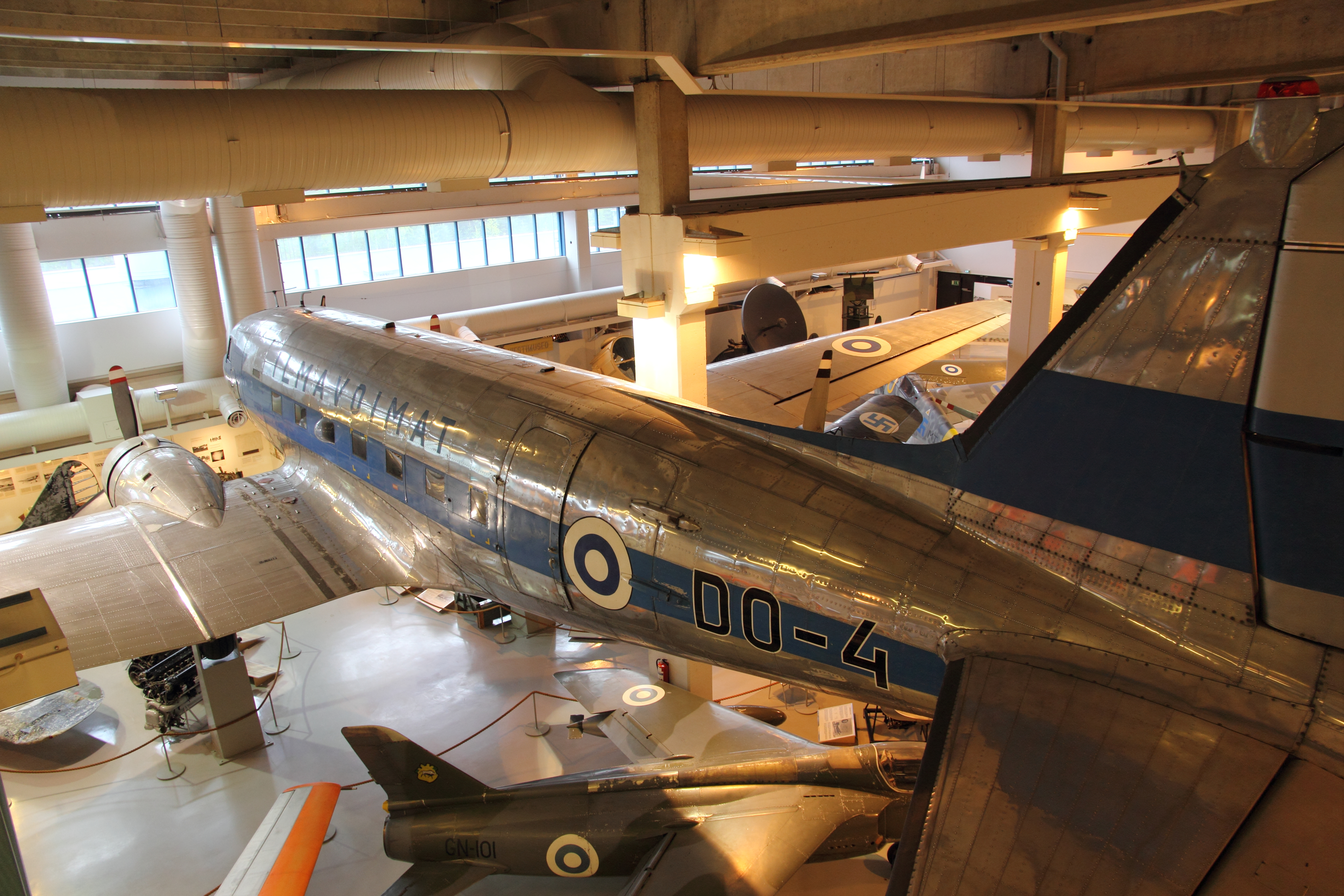 Douglas DC-3 (military registry DO-4, former civil OH-LCF) in the Aviation Museum of Central Finland.